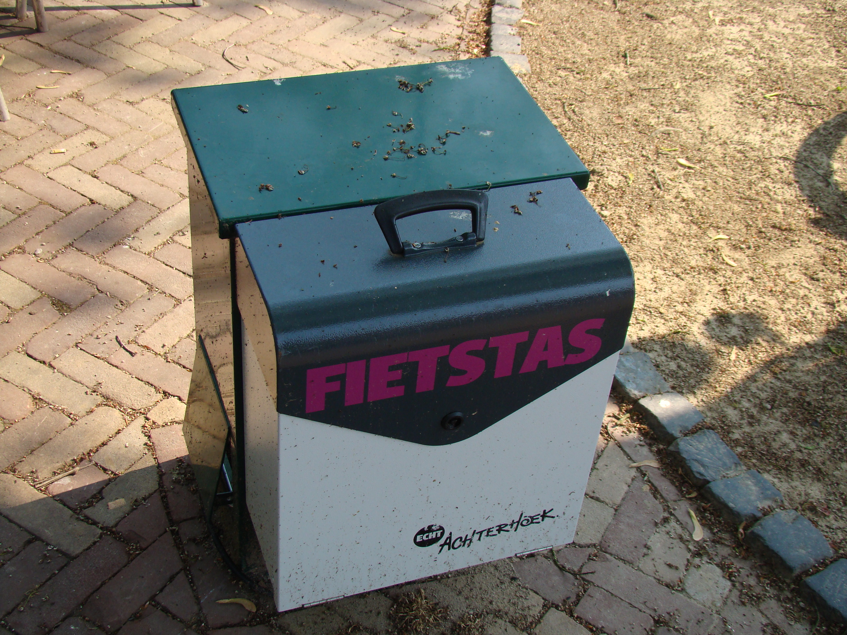 FIETSTAS (Bycicle bag) Battery charger